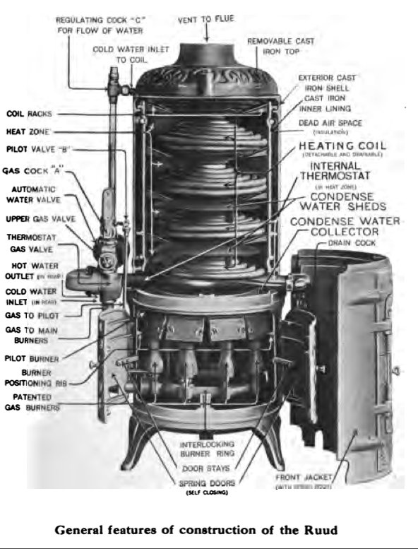 The Anatomy of the Ruud Instantaneous Water Heater 1915.